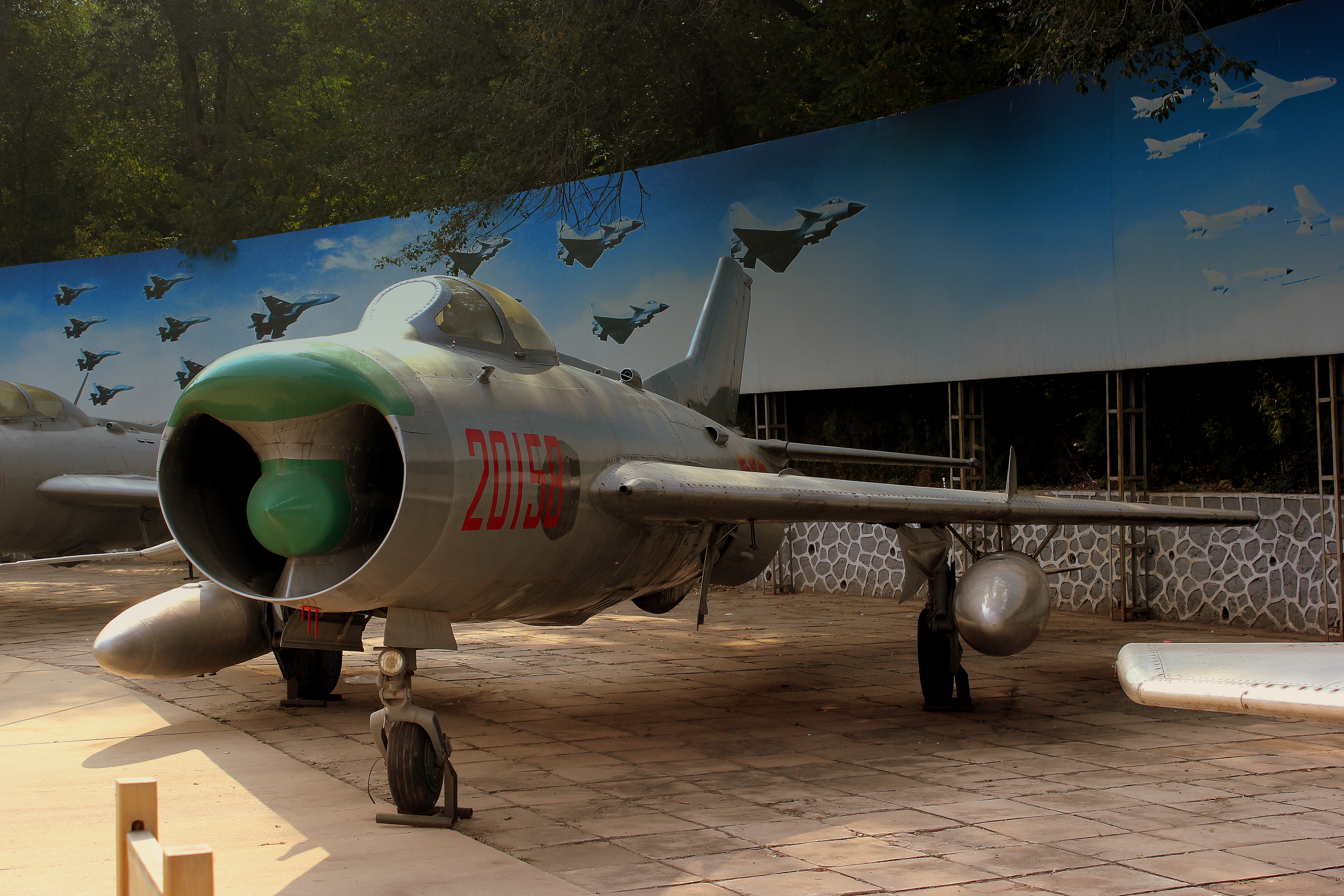 SHENYANG BUILT MIG17 AT THE DATANGSHAN CHINA AVIATION MUSEUM BEIJING CHINA OCT 2012